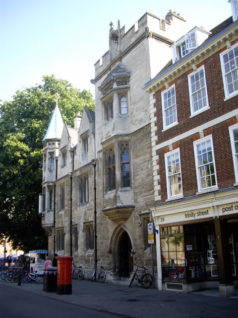 Whewell's Court, Trinity College. Ludwig Wittgenstein's rooms were at the top of the tower on the other side. See Wittgenstein forum, accessed 12 September 2010.